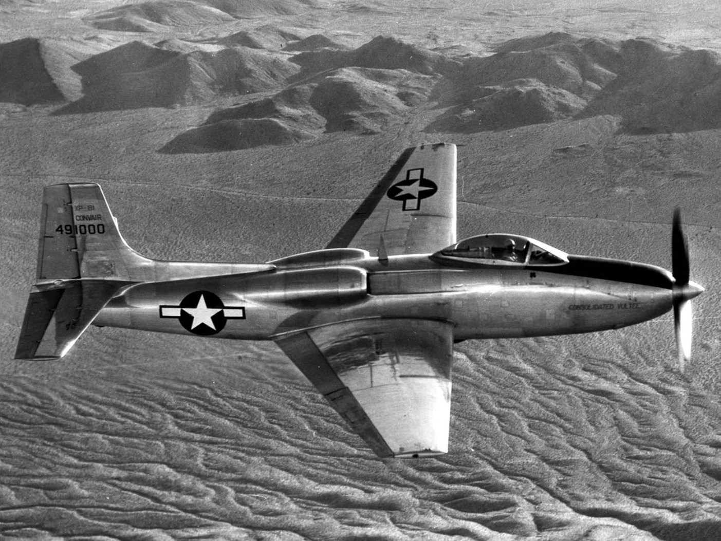 Convair XP-81 fighter